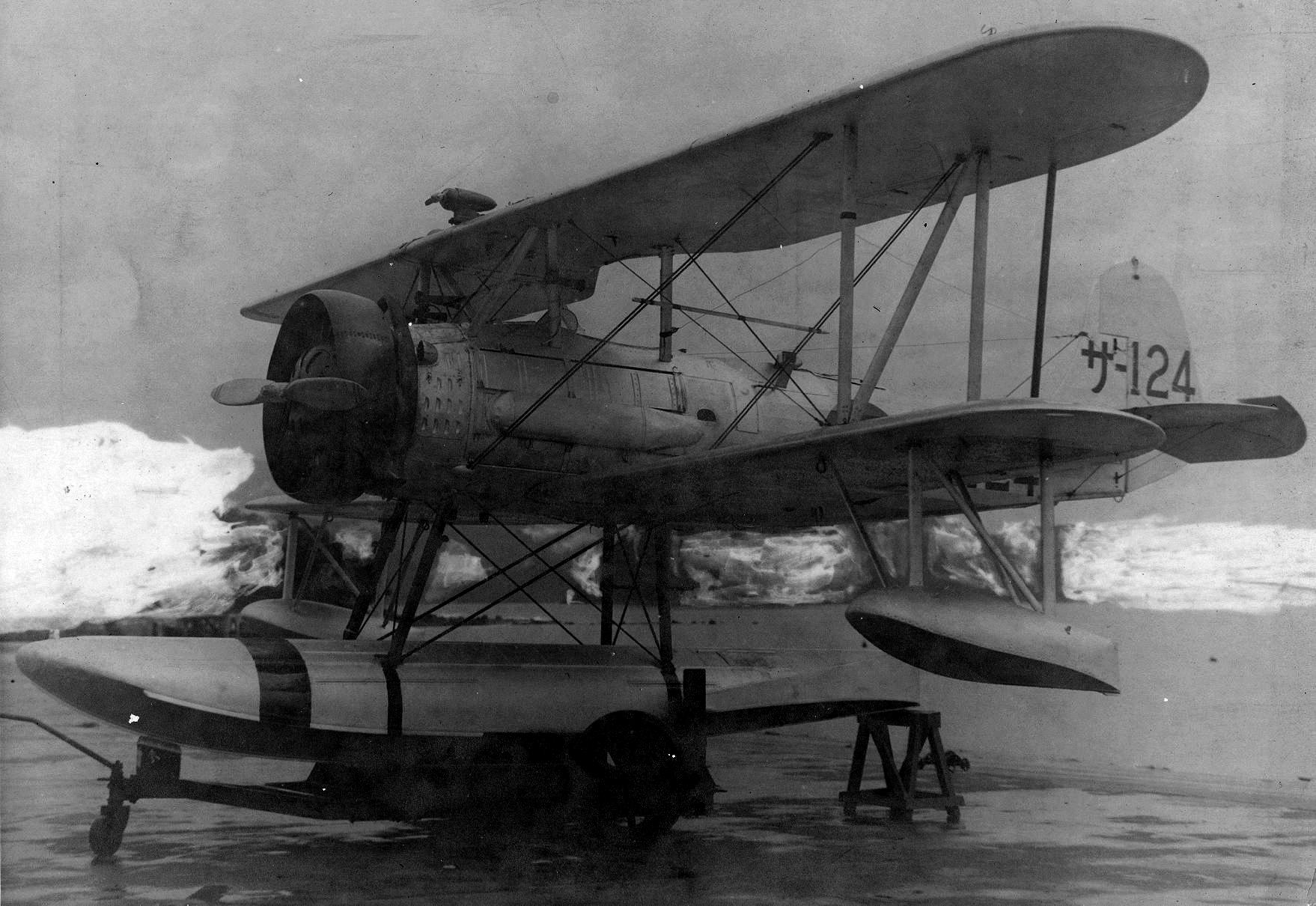 Nakajima E4N2 tailcode サ-124 of Sasebo Kōkūtai